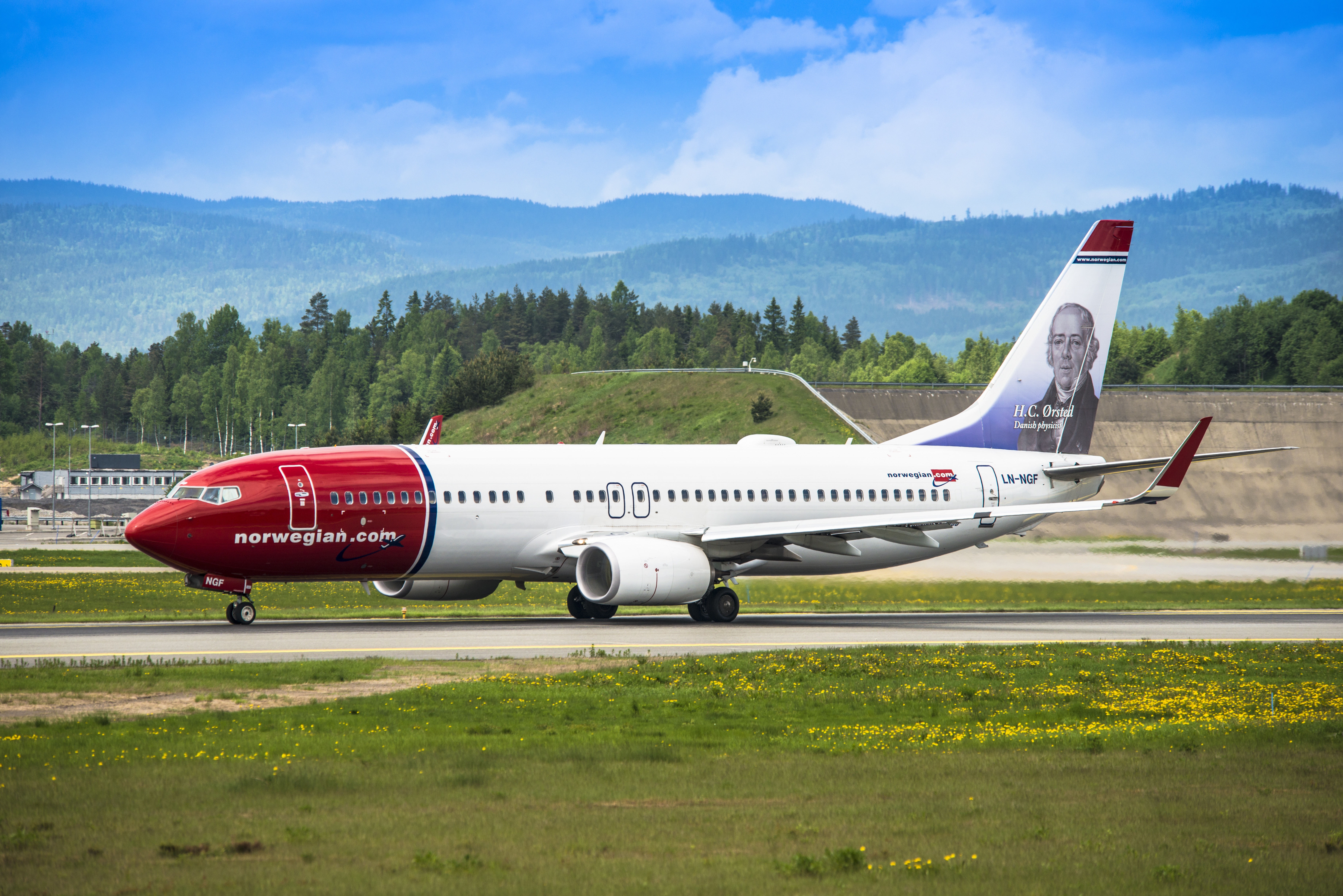 Norwegian's LN-NGF